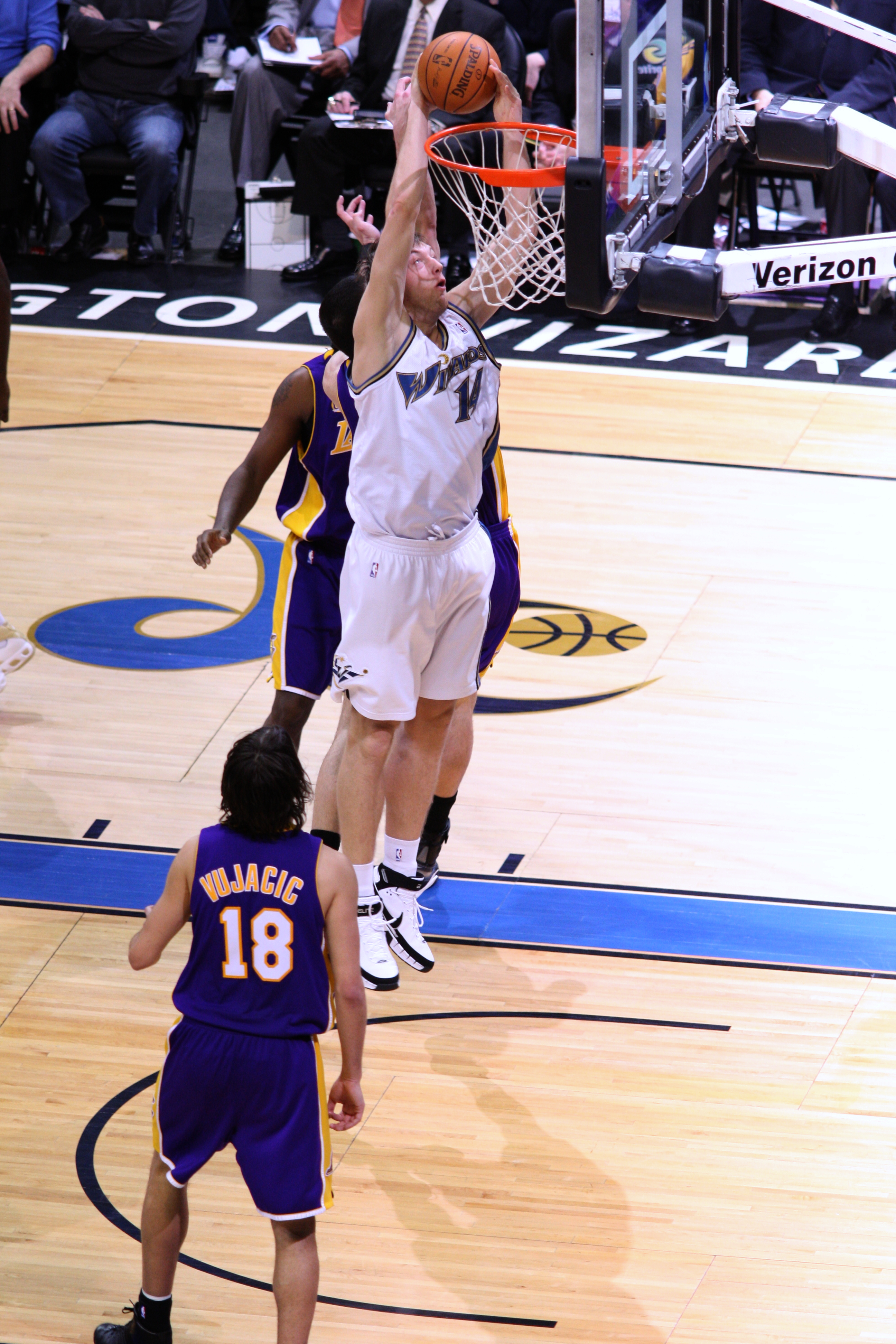 Oleksij Pečerov of Washington Wizards against Los Angeles Lakers.